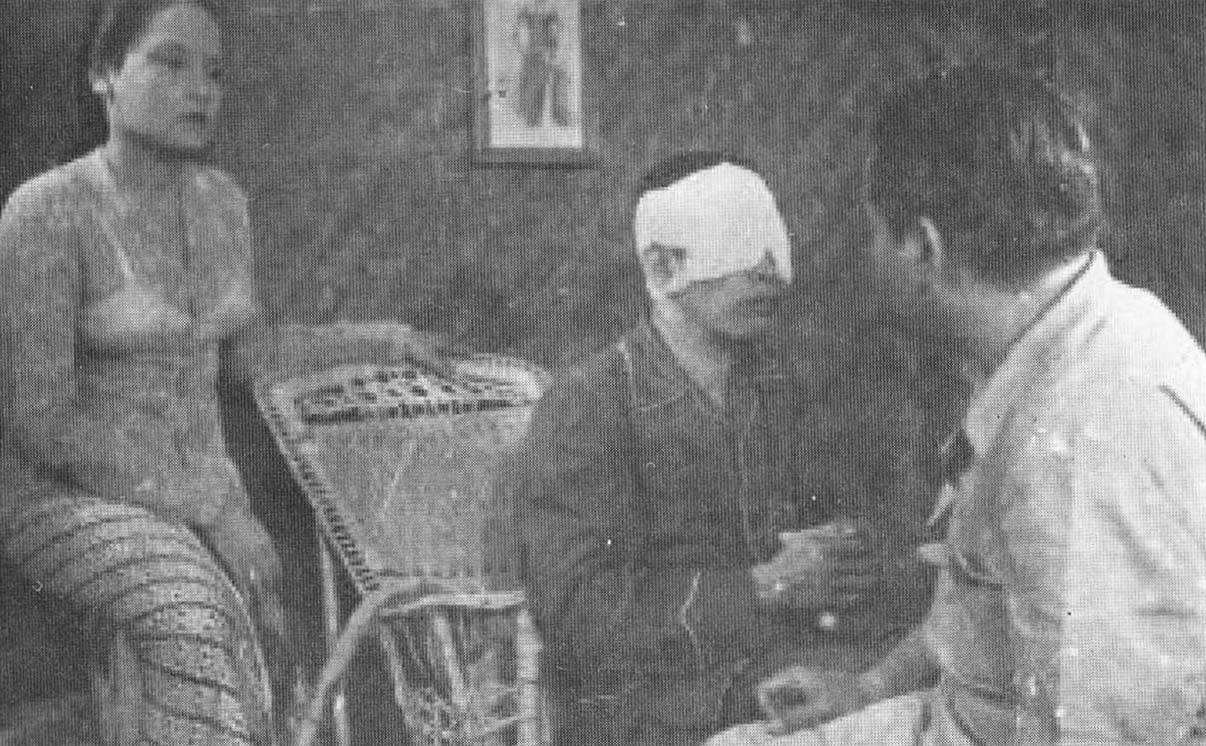 Ratna Asmara, Ali Yugo, and Iscandar Sukarno in Djaoeh di Mata